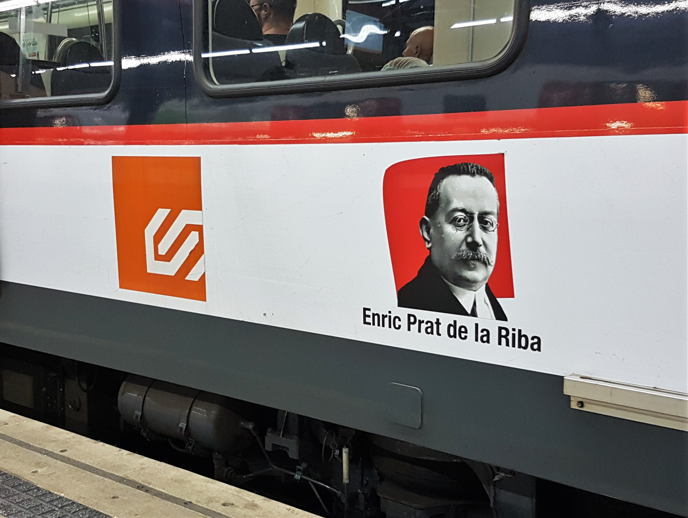 The EMU 213.26 of the Ferrocarrils de la Generalitat de Catalunya was named after Enric Prat de la Riba.